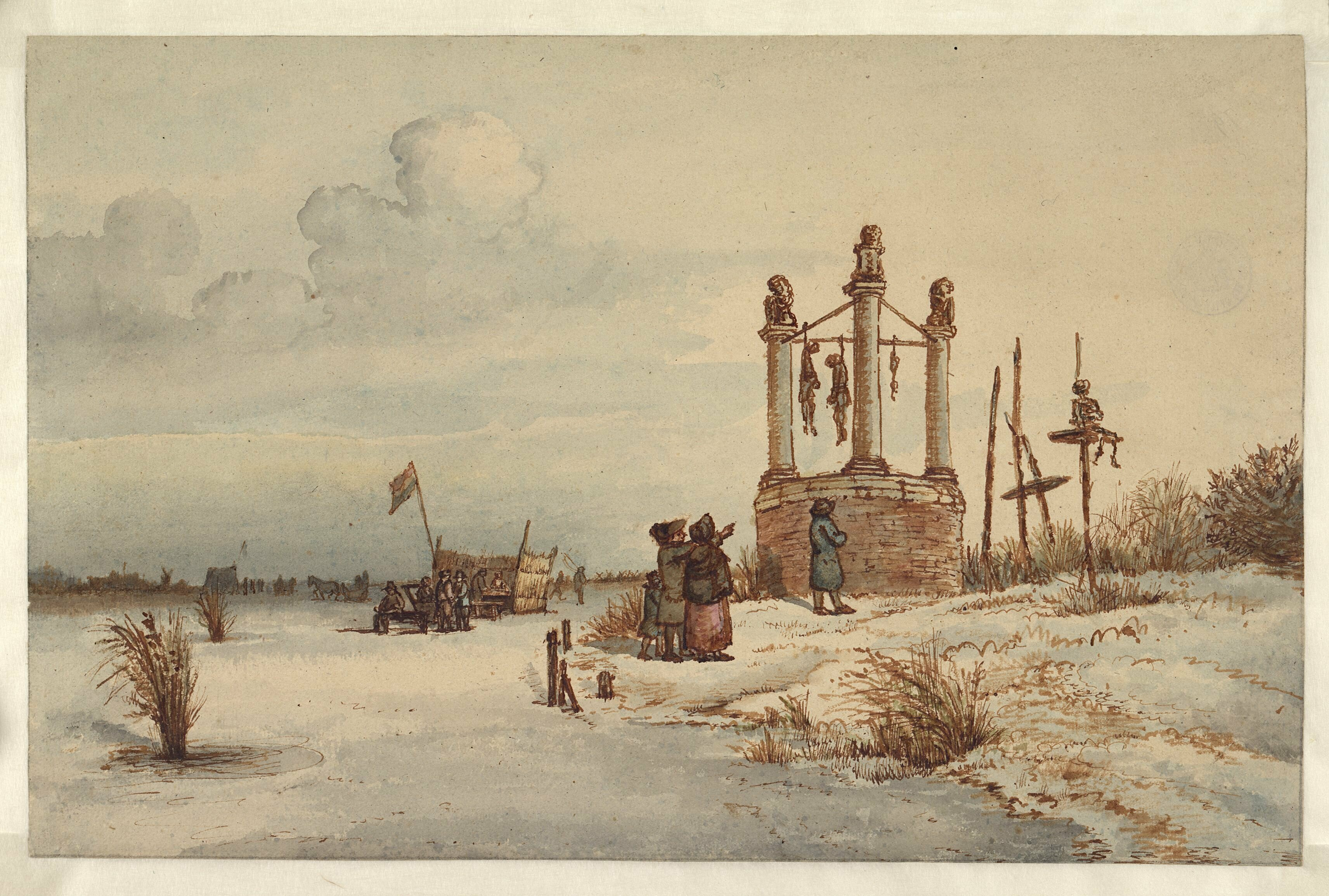 The Gallowfield of Amsterdam in 1795